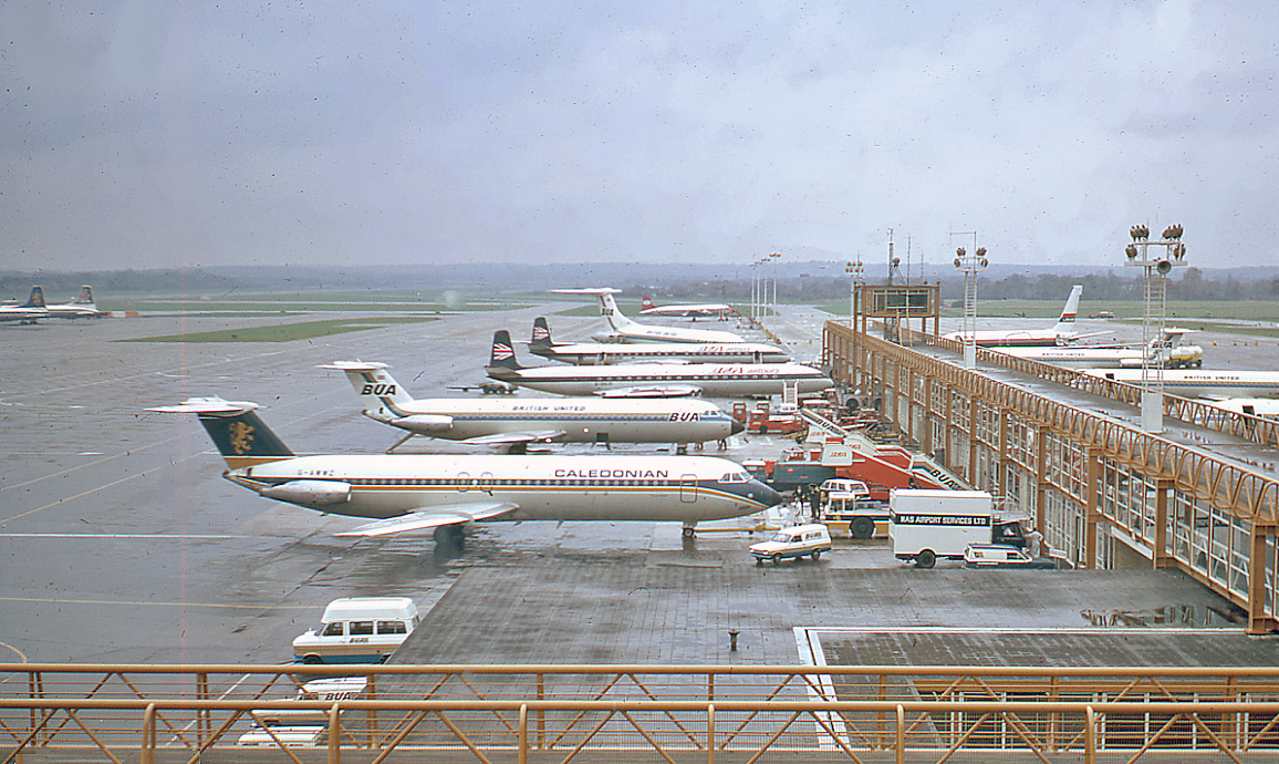 London Gatwick Airport, 1970. Westward view of line-up of aircraft.